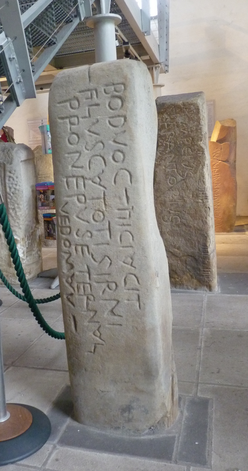 6th C pillar inscribed 'The Stone of Bodvoc. Here he lies, son of Cattegern [or Cattegirn], and great-grandson of Eternalis Vedomavus'. Originally on a ridge at Mynydd Margam, it is now in the Margam Stones Museum, nr Port Talbot.